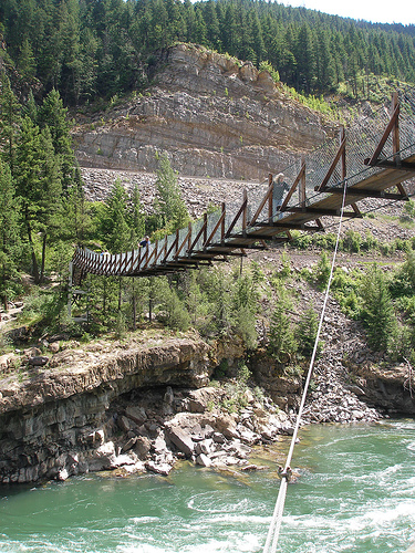 Troy, Montana